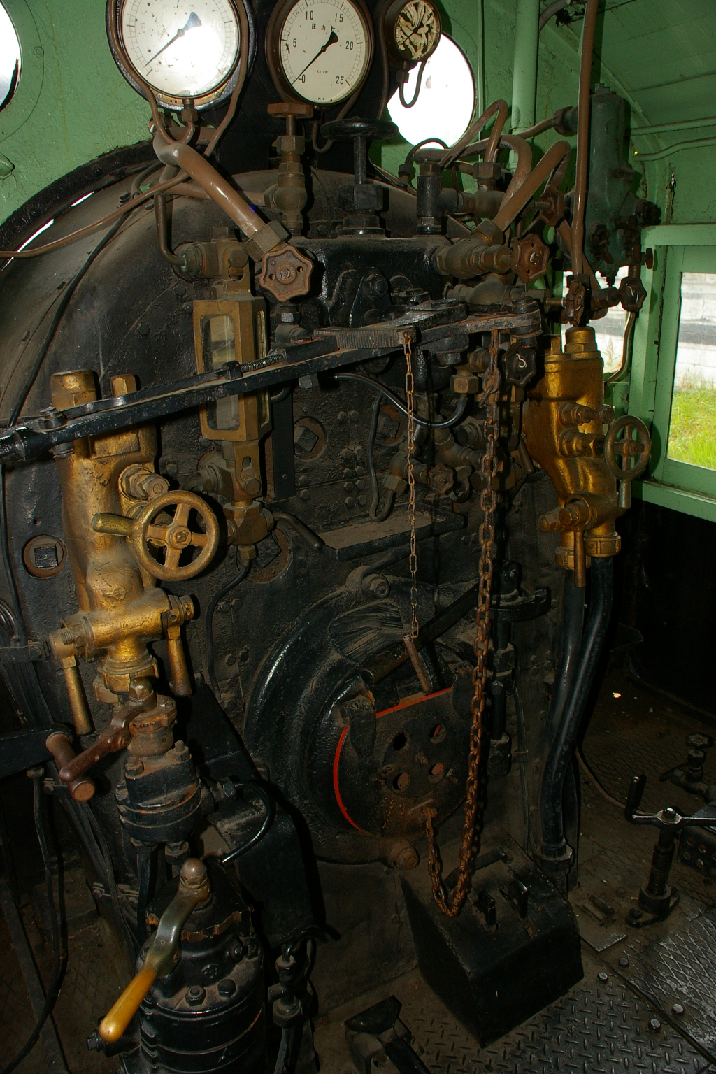 The boiler at JNR C12 6 in Otaru synthesis museum.